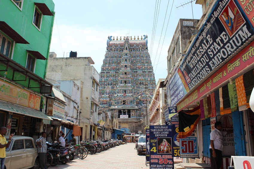 Meenakshi Amman Temple North Tower - Street